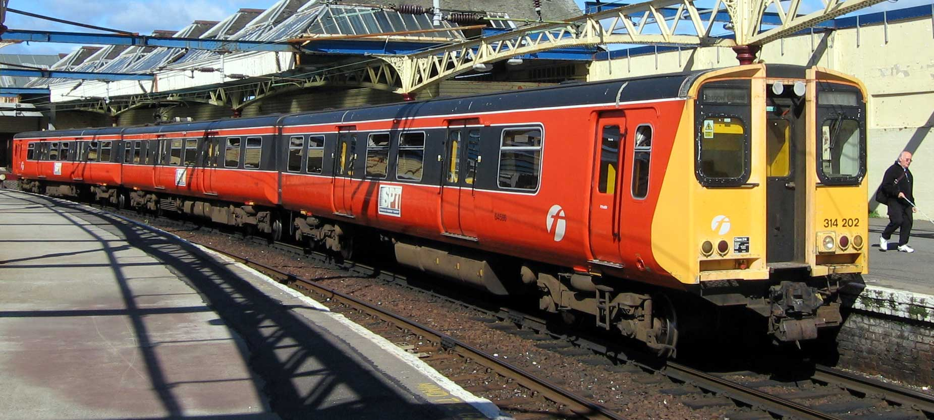 Strathclyde Partnership for Transport British Rail Class 314 train 314202 still in the original Strathclyde Transport orange and black livery, at Gourock railway station